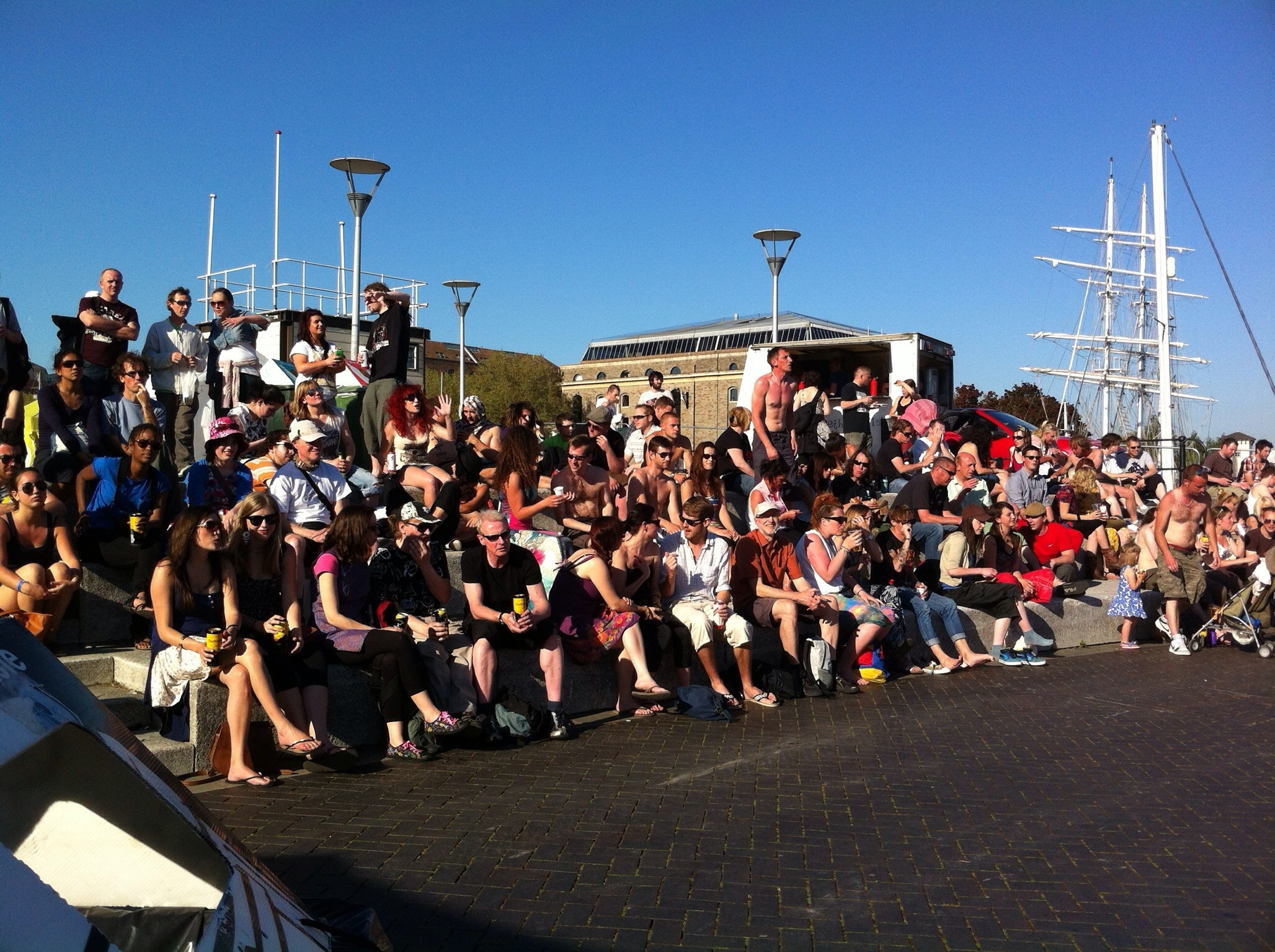 Crowd listening to The Magnus Puto